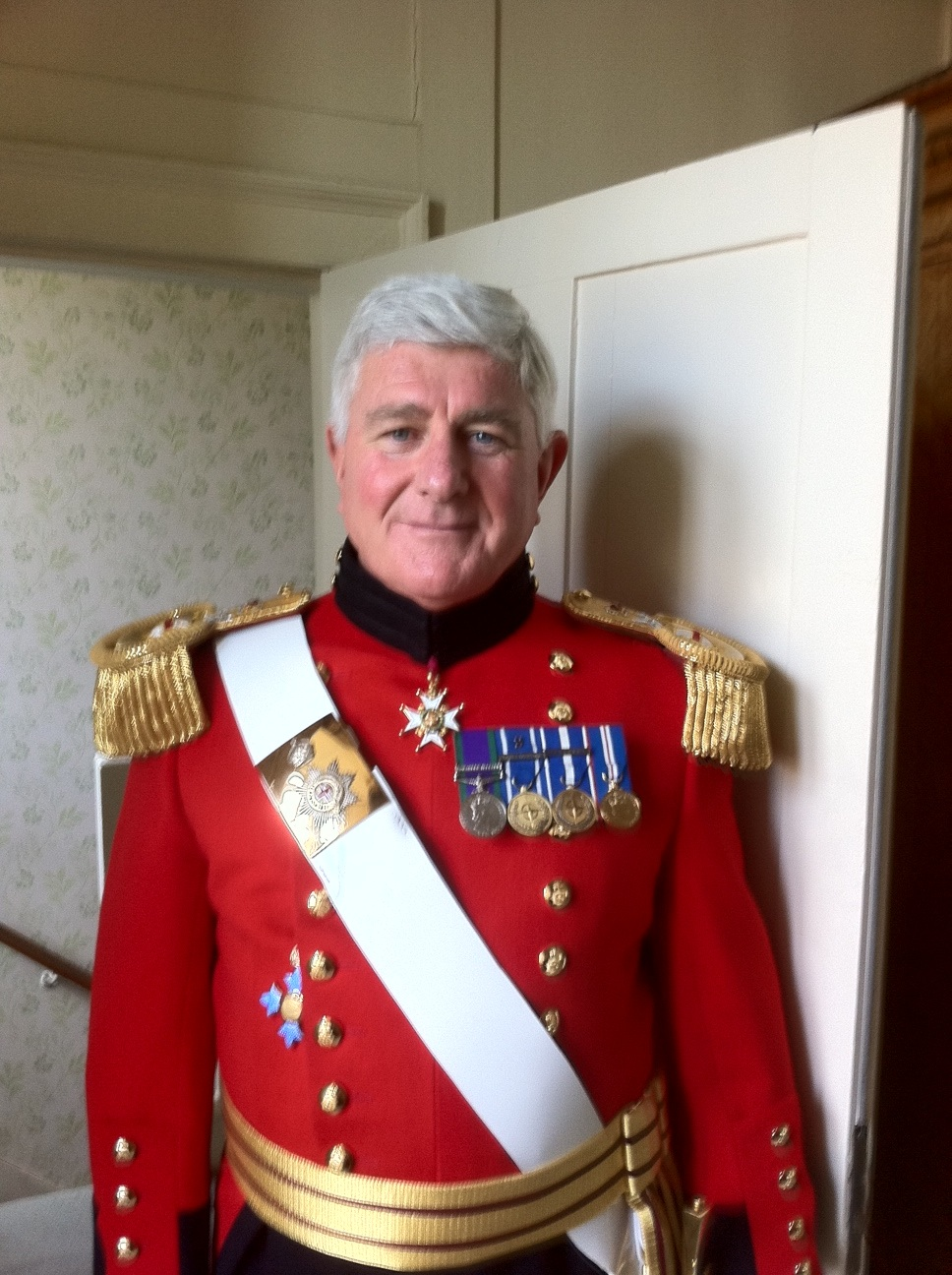 Governor of the Military Knights of Windsor is an office of the Royal Household of the Sovereign of the United Kingdom which dates from the mid-sixteenth century. From 1905 he has been controlled by the Constable of Windsor Castle, having formerly been responsible to the Dean of Windsor. Since 1906 the Governor has always been a senior retired officer.[1] The Governor has charge of the Military Knights of Windsor.